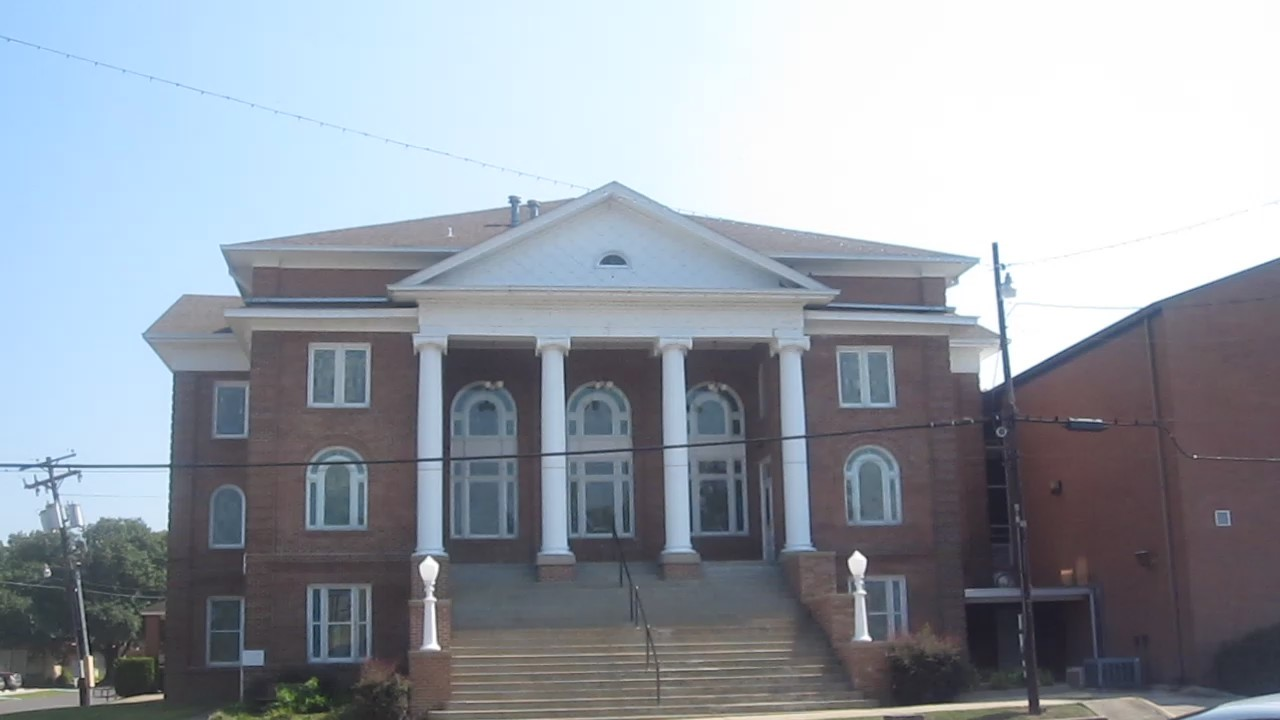 First Baptist Church, Winnfield, LA